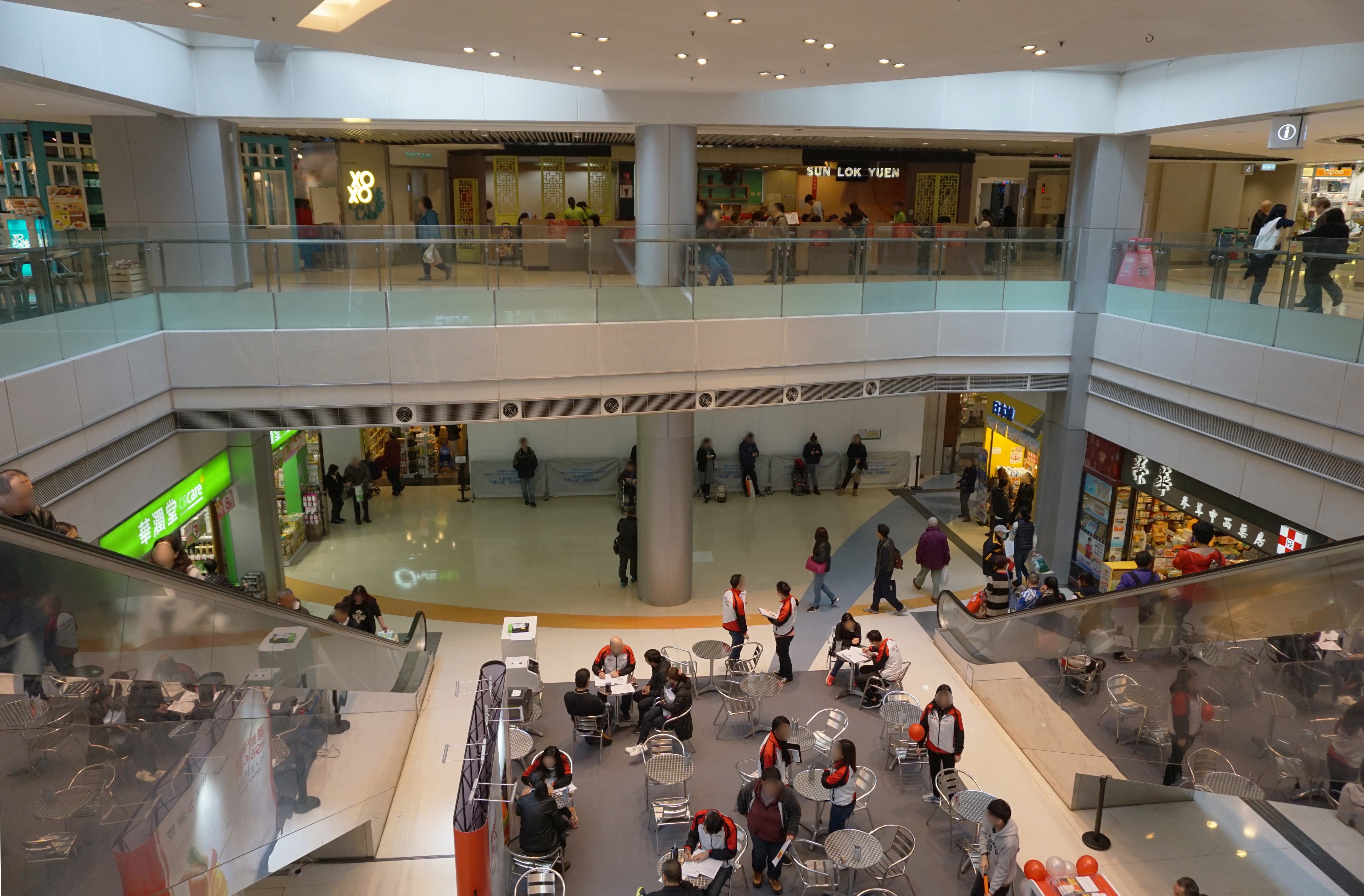 TKO Gateway in Hang Hau, Hong Kong.